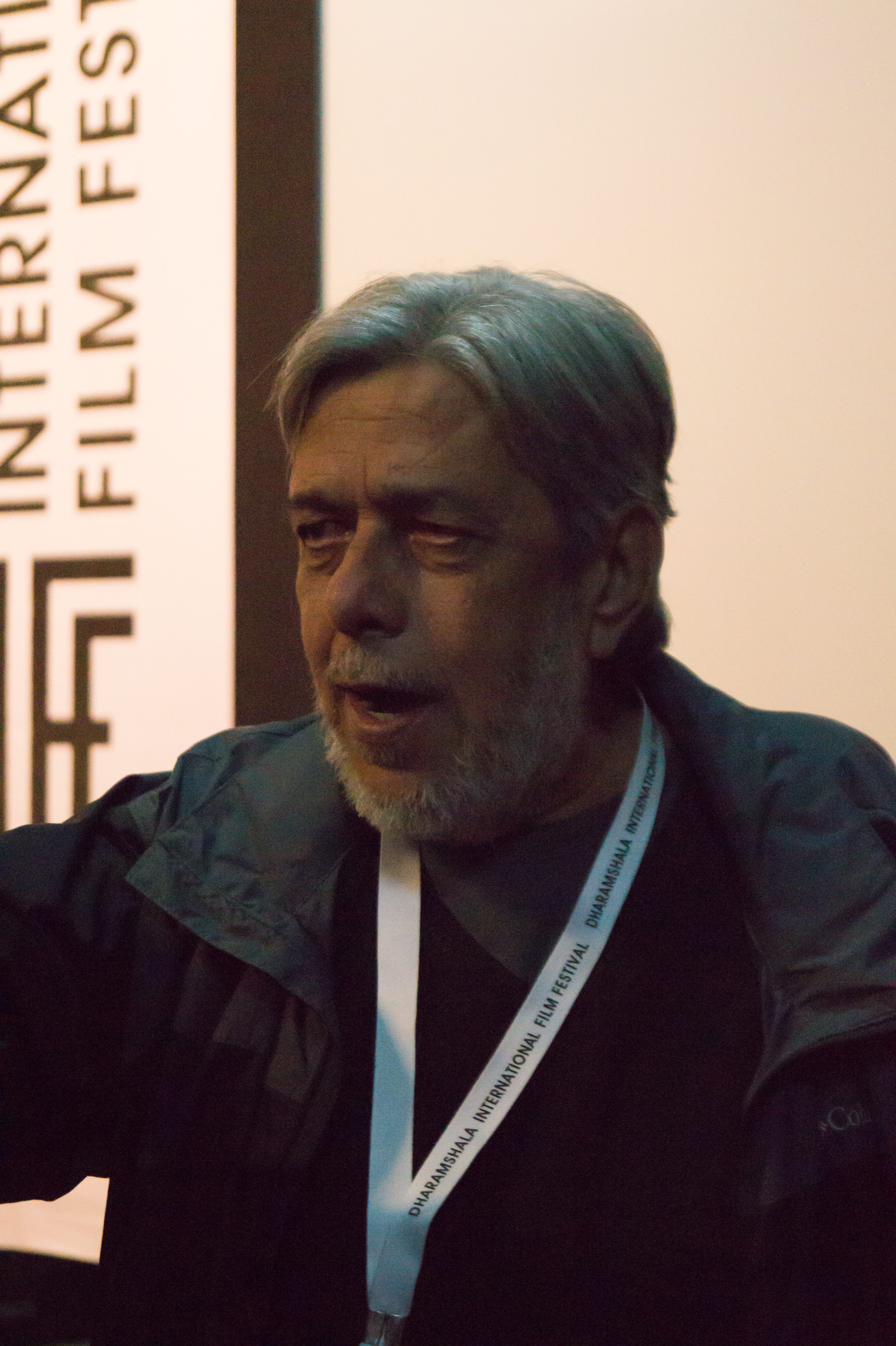 Saeed Mirza at DIFF 2016